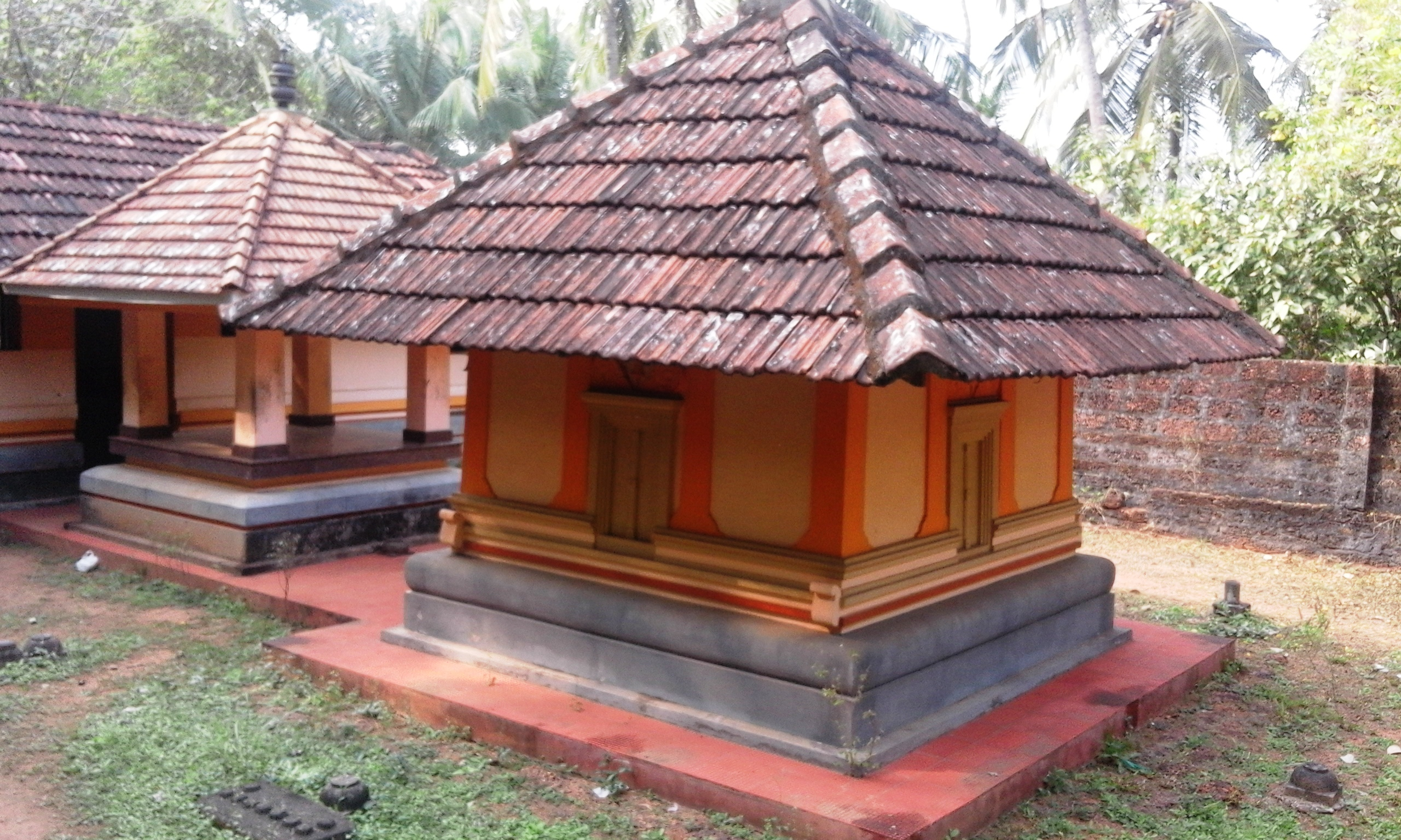 Kolakkuth, Idimuzhikkal, Ramanattukara, Kerala, India.